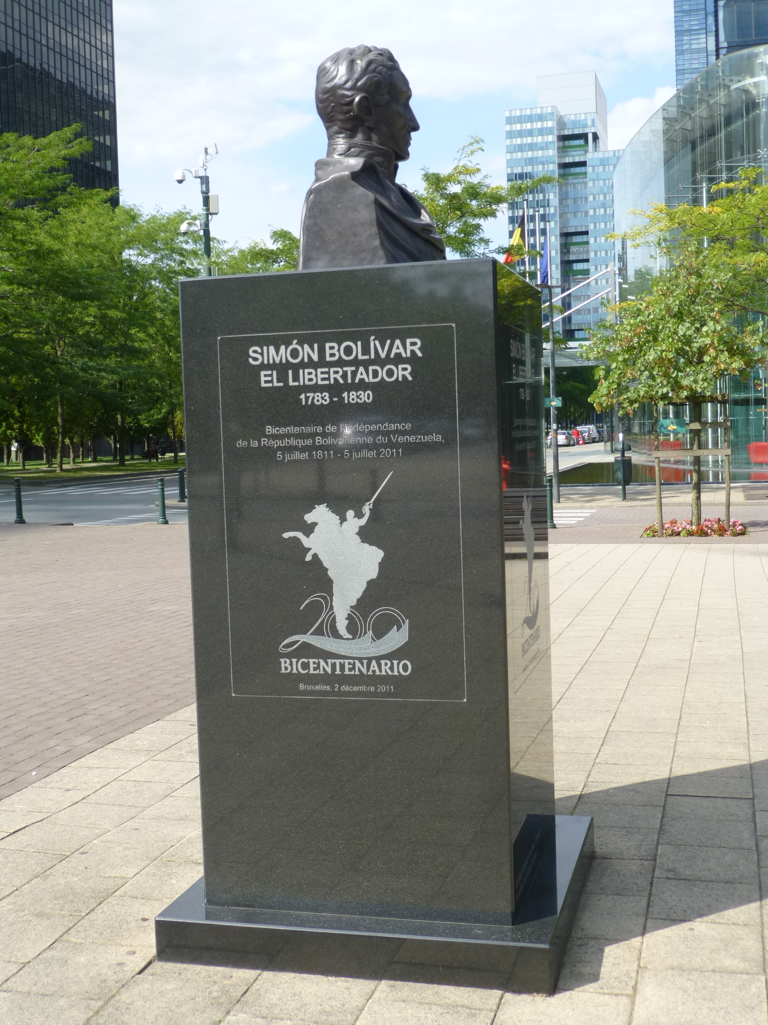 Memorial to Simon Bolivar, 200 years, bust in a Boulevard named after him at the Northern Station in Brussels (Schaerbeek). Installed in 2011.